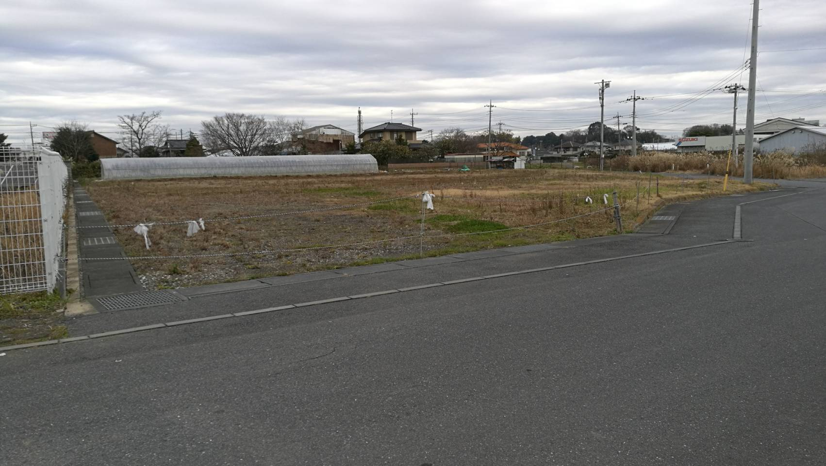 ASTA tamari